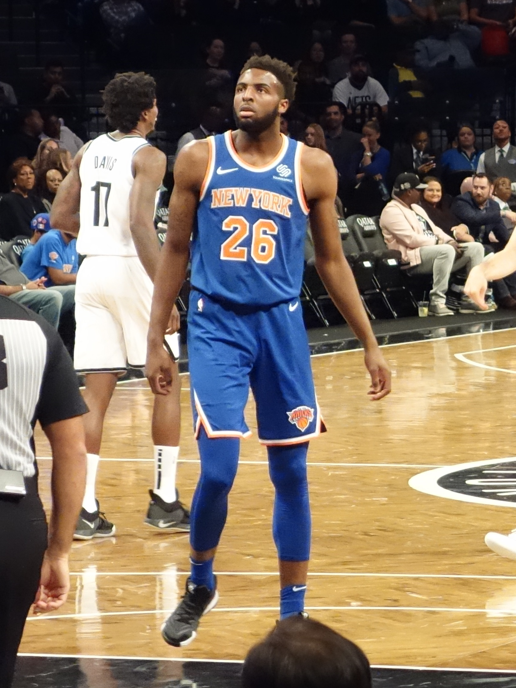 New York Knicks rookie center Mitchell Robinson shooting a free throw during the first quarter of the NBA Preseason game between the Brooklyn Nets and the New York Knicks at the Barclays Center on October 3, 2018. Robinson was selected 36th overall during the second round of the 2018 NBA Draft.